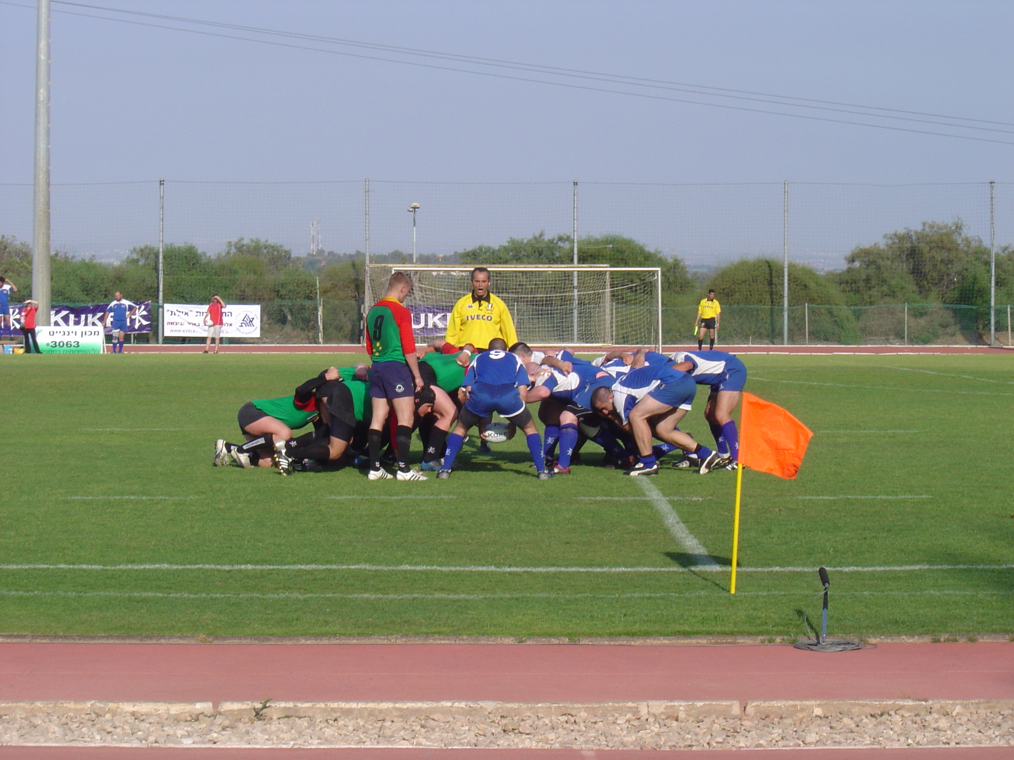 Israel Vs. Lithuania